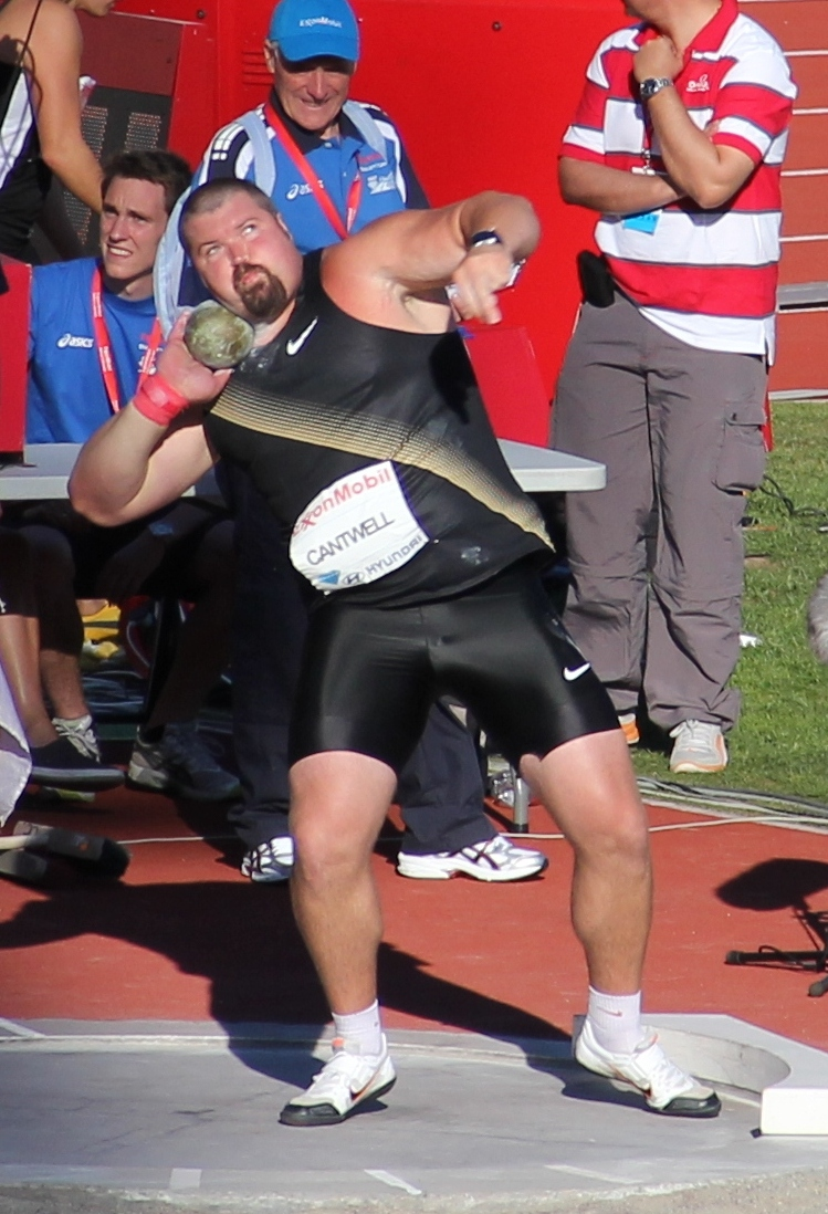 Christian Cantwell in action during Bislett Games 2010 - cropped